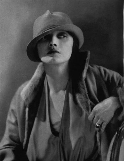 Portrait of the French fashion designer Augusta Bernard (1886-1946)